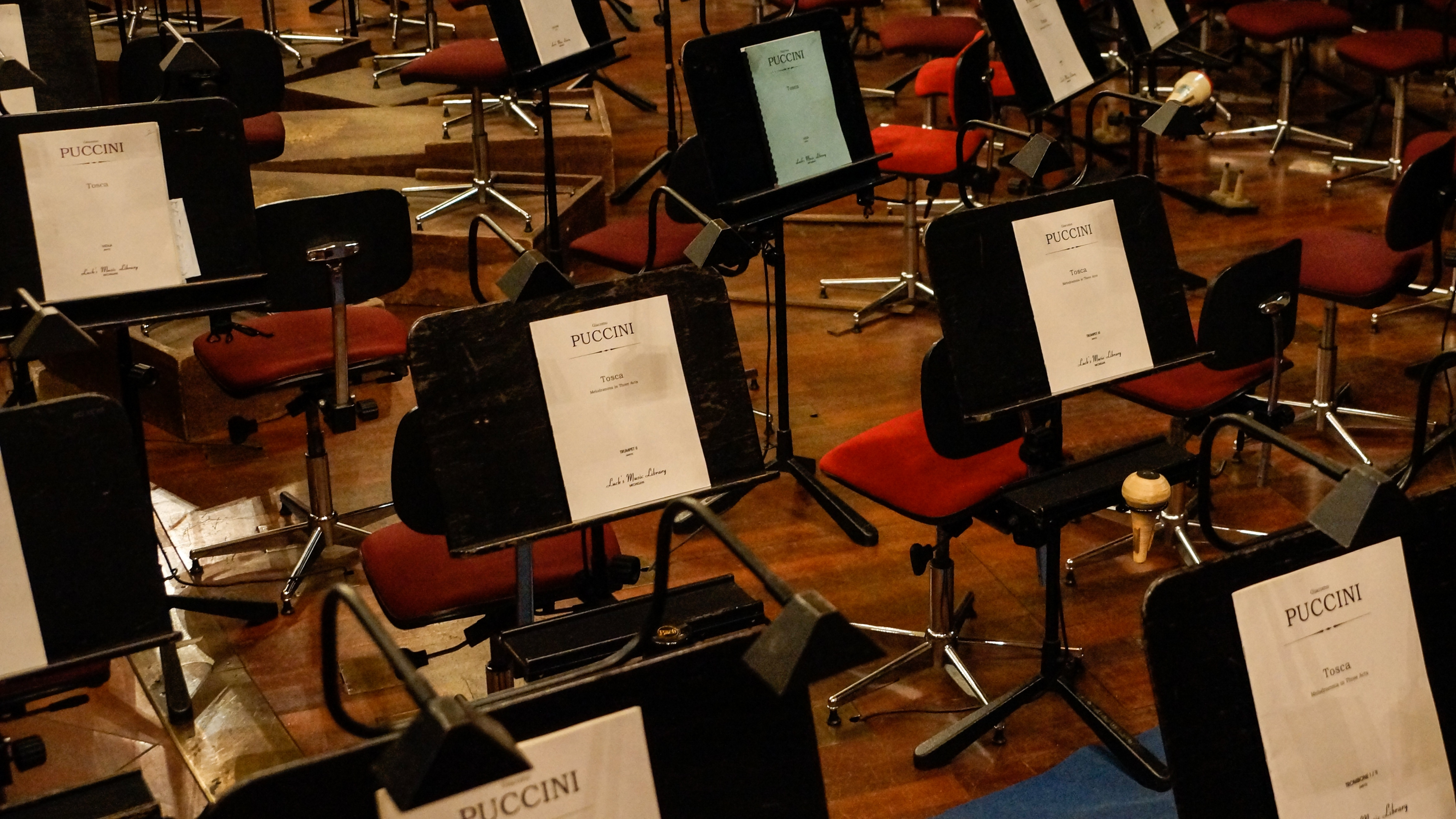 View on an orchestra pit, Puccini’s “Tosca” is on the plan.